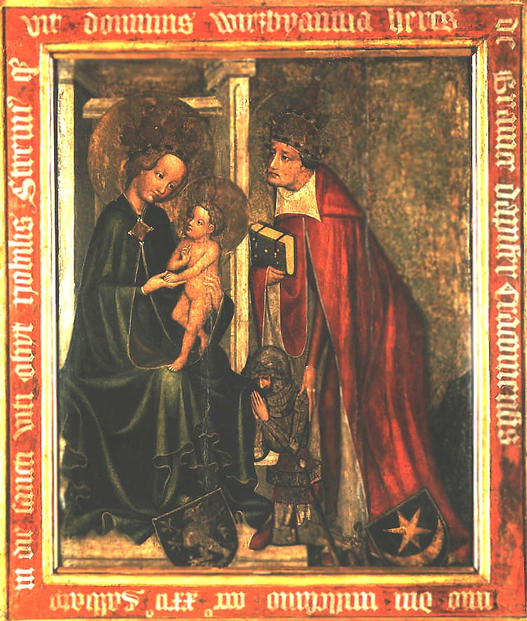 Gothic painting on the tomb of Polish knight Wierzbięta z Branic